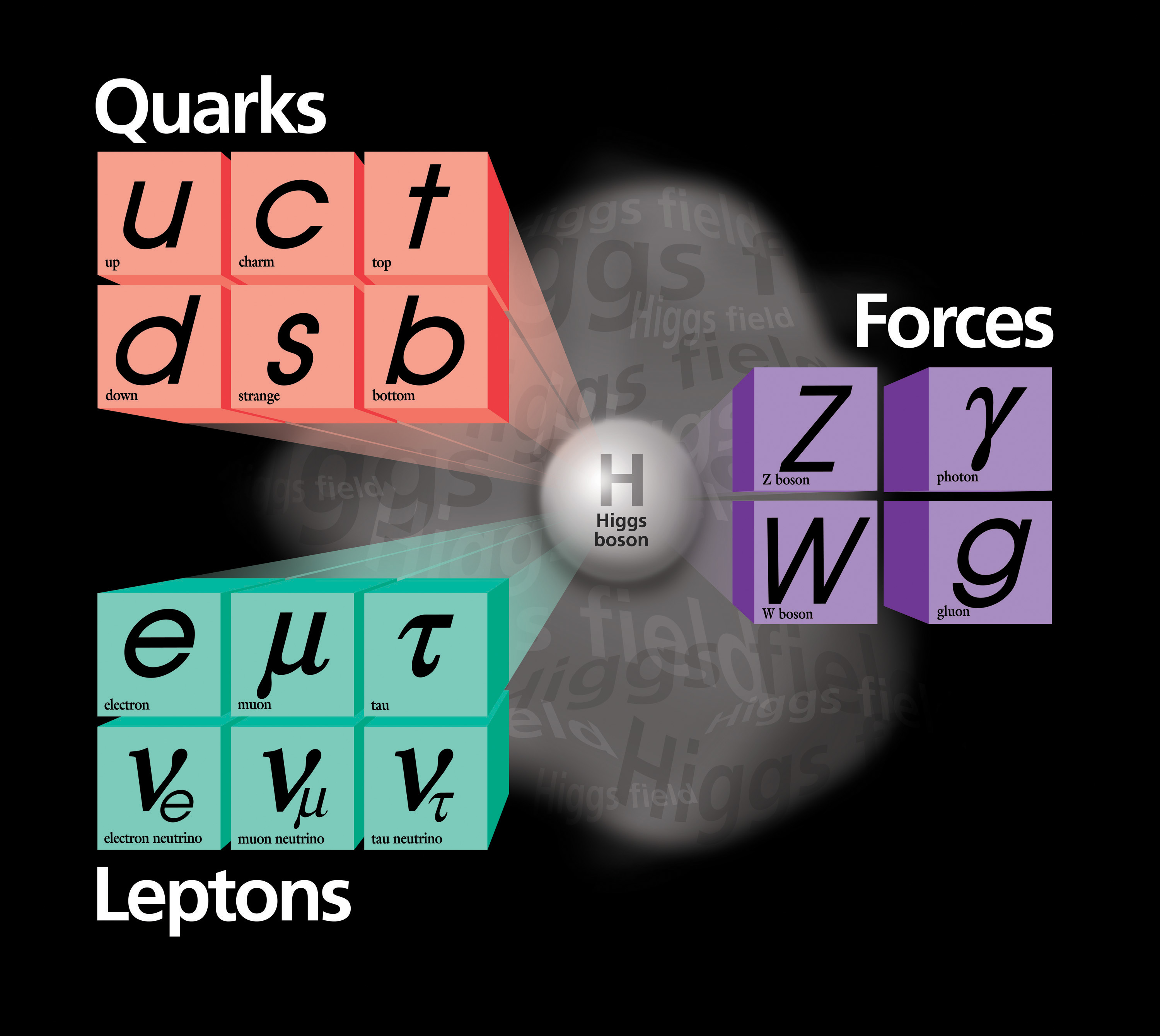 This represents the Standard model of elementary particles: You can see representations for 12 fundamental particles that make up matter (orange and green boxes) and 4 fundamental force carriers (purple boxes). Some of these appear to be 'anchored' to the Higgs boson in the center. The photon and gluon do not interact with the Higgs, so are massless. But the three neutrinos do interact with the Higgs, albeit weakly, so have a very small mass. The current theoretical framework that describes elementary particles and their forces, known as the Standard Model, is based on experiments that started in 1897 with the discovery of the electron. Today, we know that there are six leptons, six quarks and four force carriers.